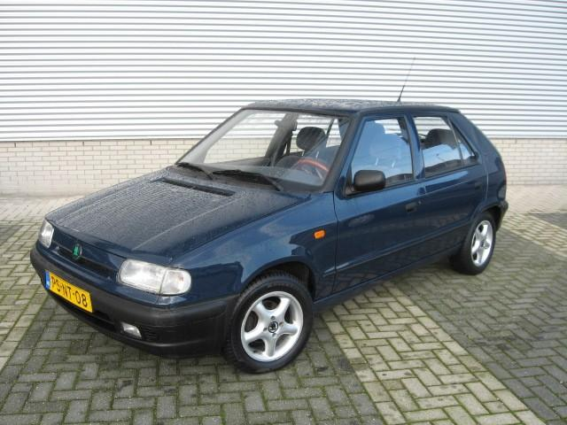 Photo of Skoda Felicia 1.6 GLXi (image is similar Dutch-specification version!)